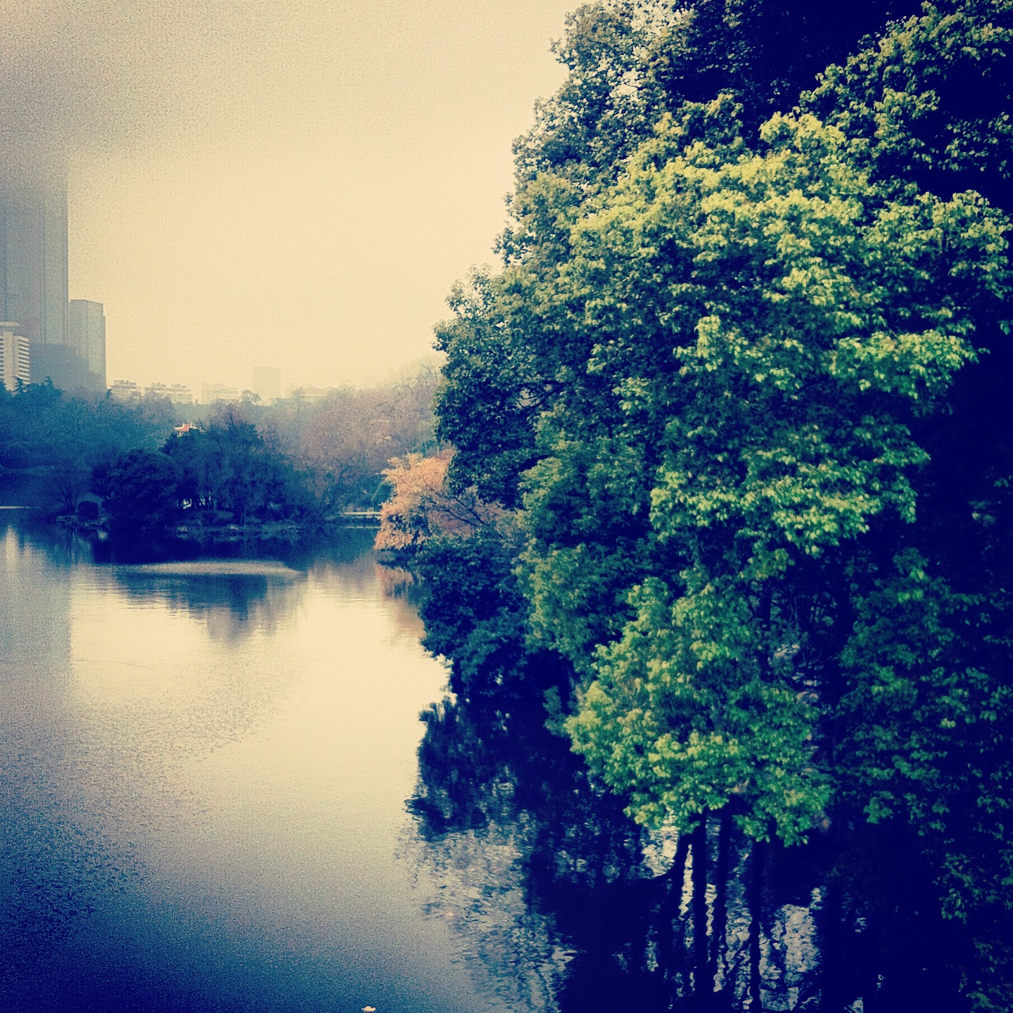 南宋姜夔寓居赤欄橋附近（今桐城路橋）